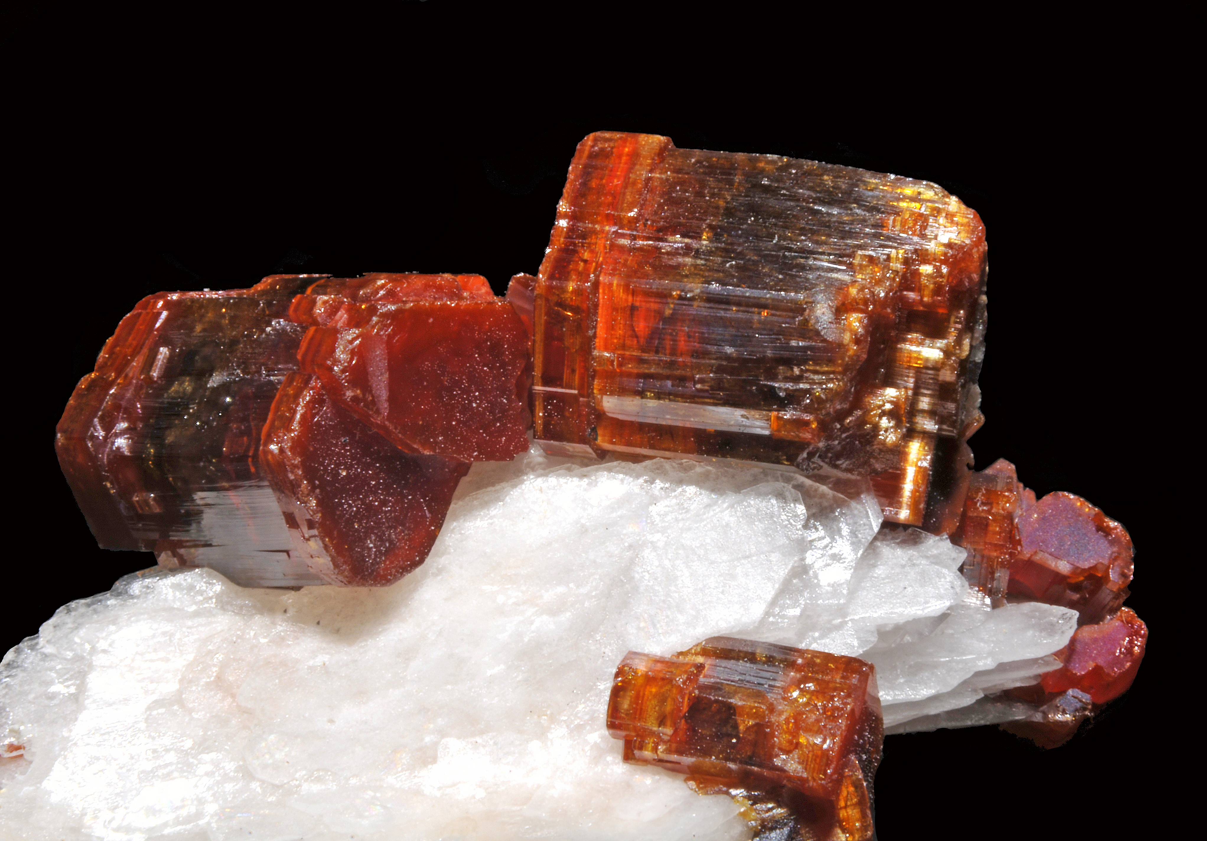 vanadinite, baryte : Mibladen Mine, Mibladane (Mibladén ; Mibladan ; Miblanden), Aouli, Upper Moulouya lead District, Midelt, Khénifra Province, Meknès-Tafilalet Region, Morocco